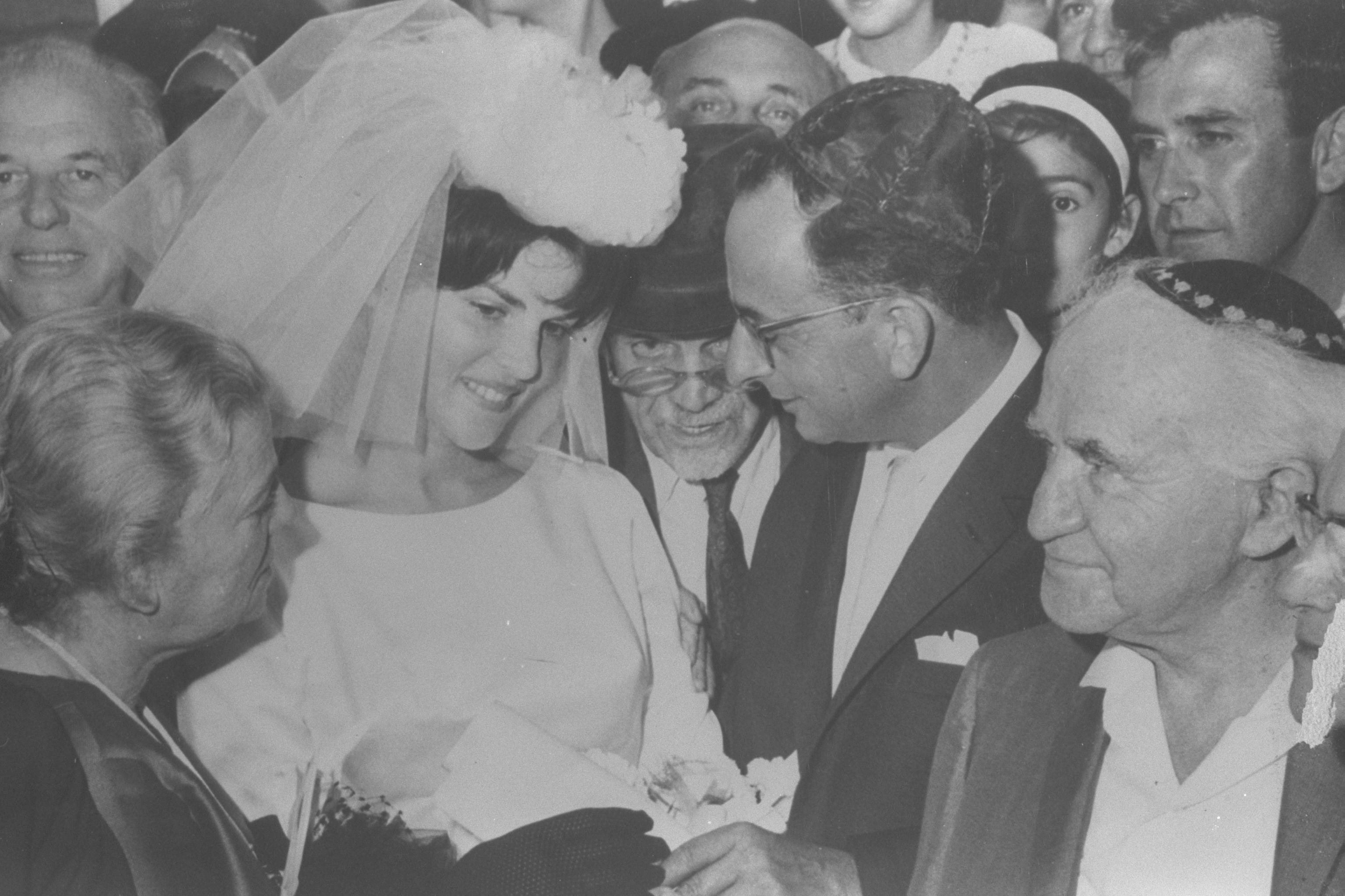 THE WEDDING OF OPHIRA AND YITZHAK NAVON